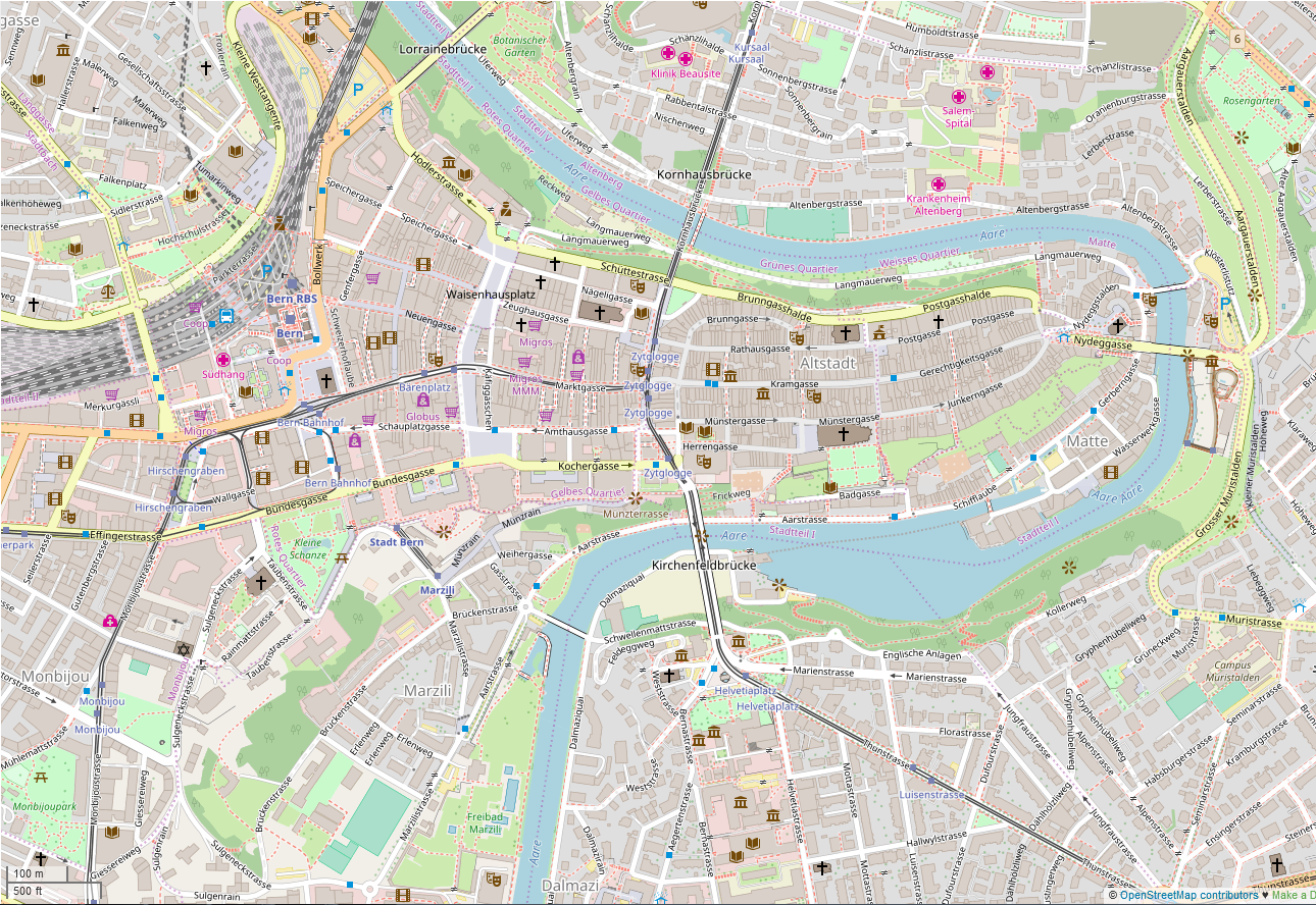 Bern Switzerland from OpenStreetMap. Approx borders top:46.9535 left:7.4338 right:7.4615 bottom:46.9405 This map may be incomplete, and may contain errors. Don't rely solely on it for navigation.